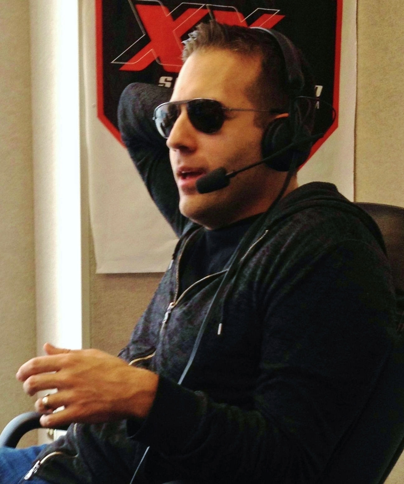 On a special broadcast, April 5, 2012